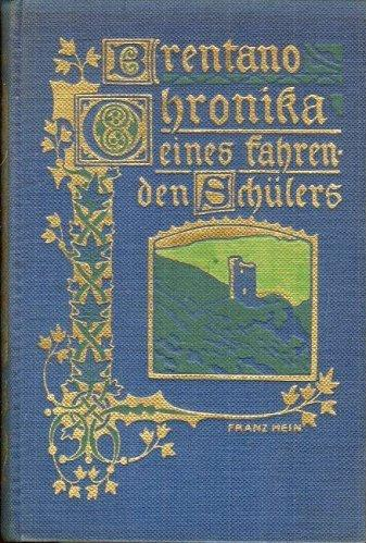 Auguste von der Elbe: Chronika eines fahrenden Schülers